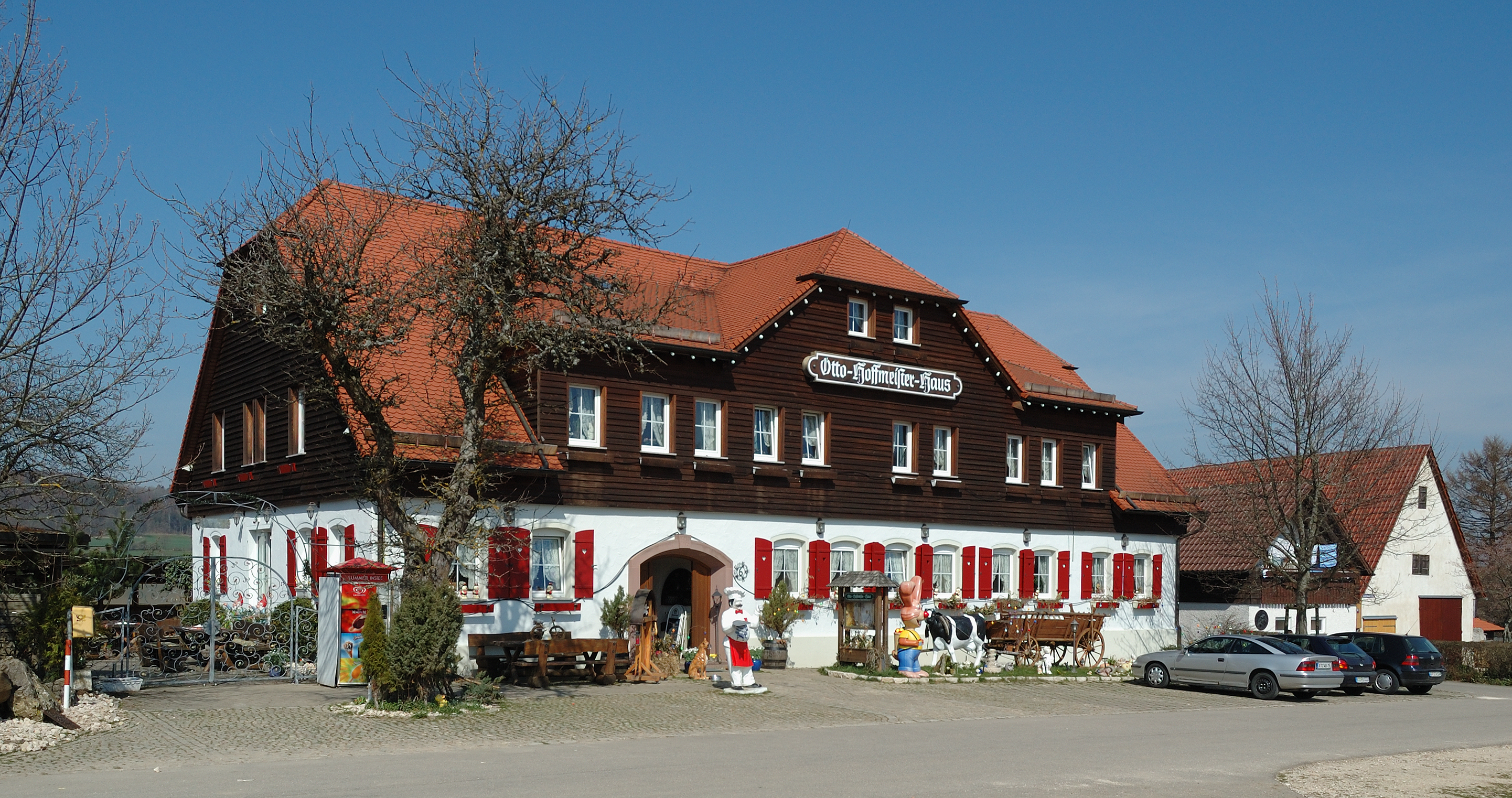 "Otto Hoffmeister House", Bissingen/Teck.